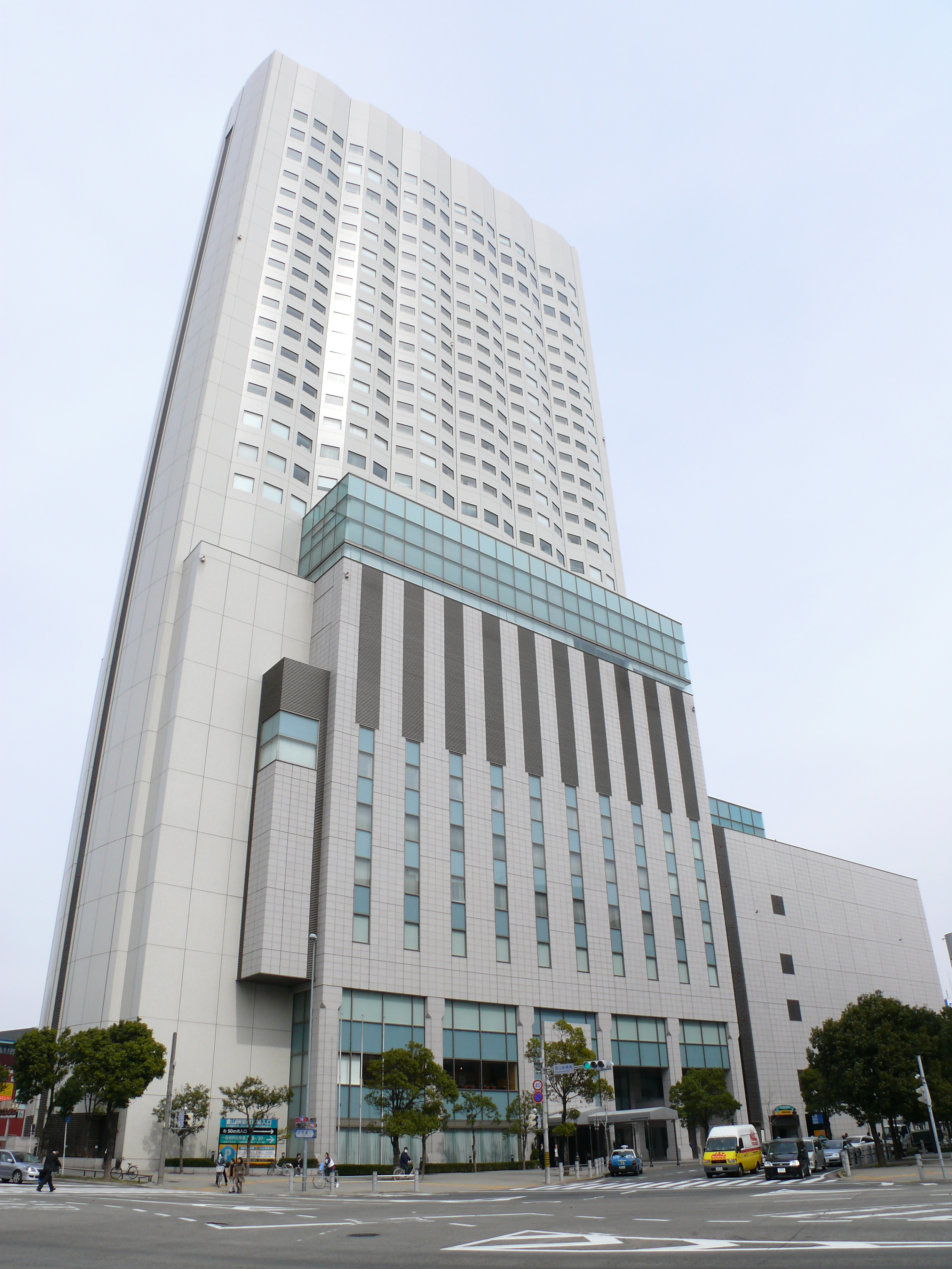 Kanayama South Buil.